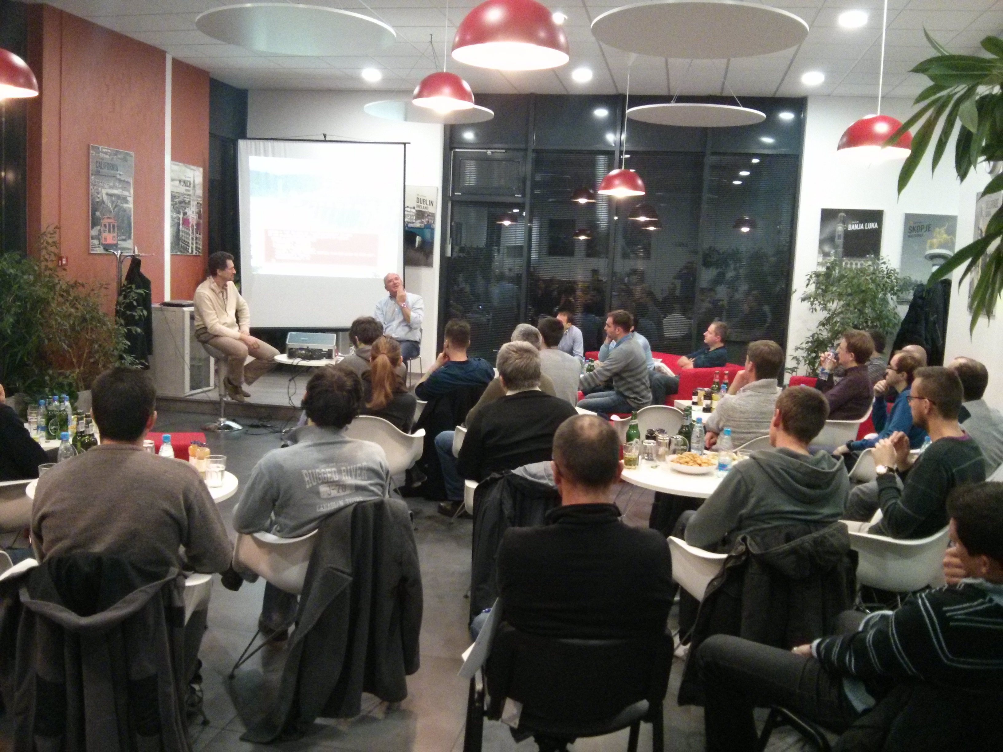 Securing Internet of Things talks at ShareIT Meetup in Ljubljana, Slovenia.